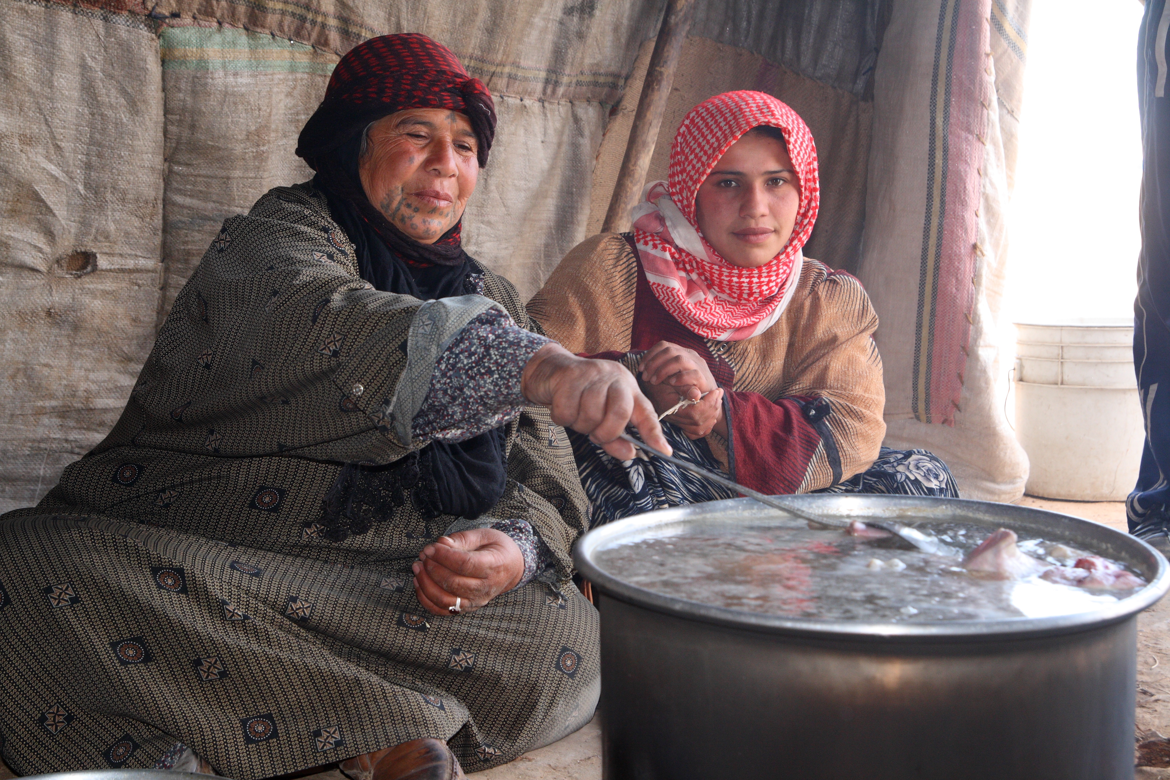 The lady on the left is the matriarch. They were stewing a young lamb (killed hours earlier) over an open fire in their kitchen tent, one of the three tents that about 15 people lived in.